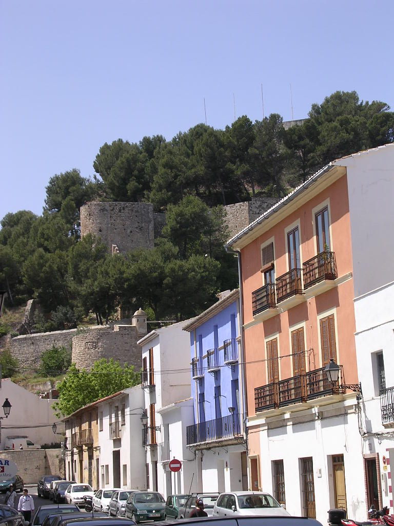 A view of the town of Denia in the Alicante region of Spain.